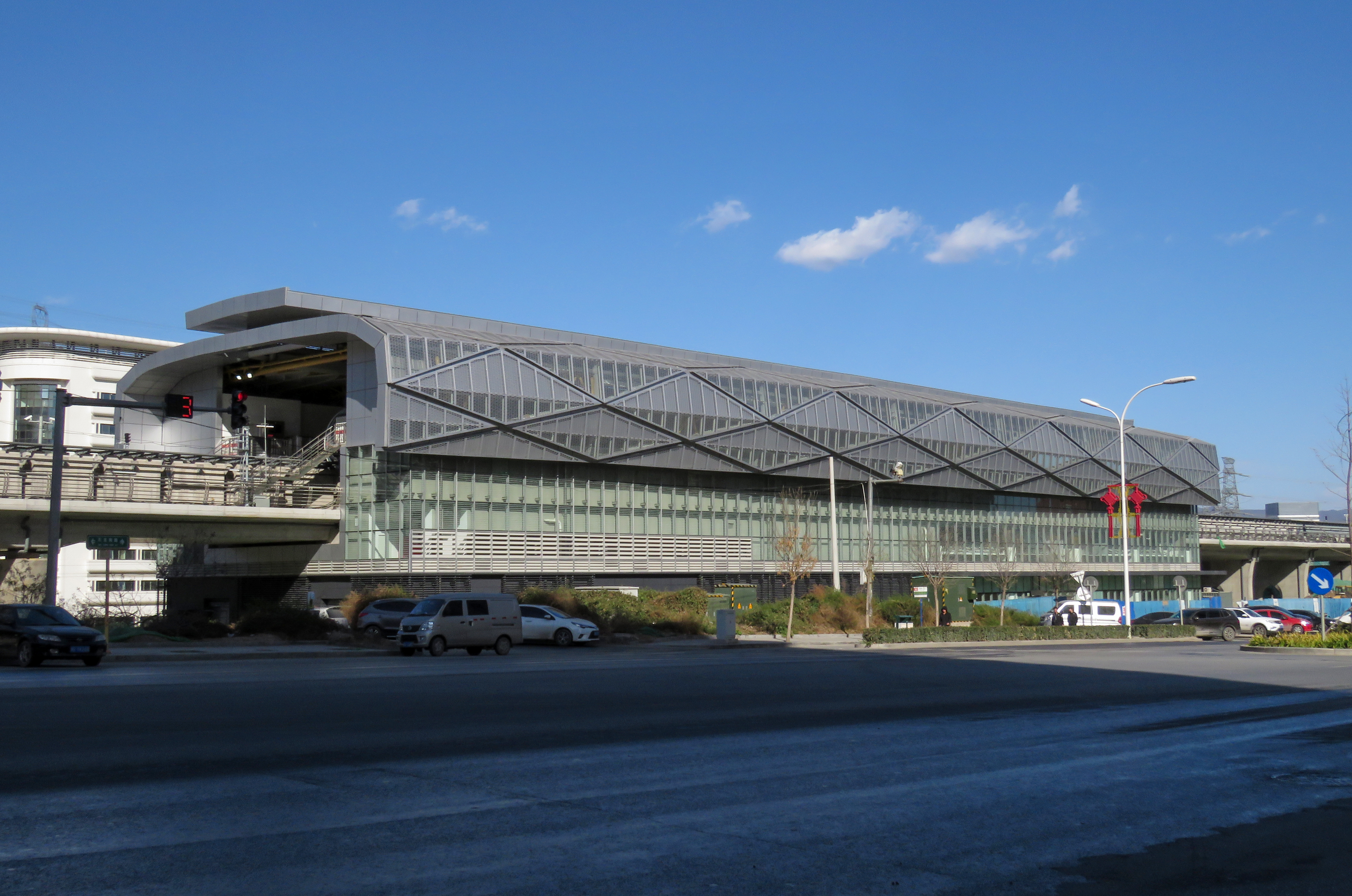 This time features better light. According to Qianlong, this station features lotus-shaped decorations, possibly in concert with two nearby Buddhist temples: Jietai Temple and Tanzhe Temple. The interior frame is yellow, which is also a Buddhist element (see also SML11 Longhua Station.